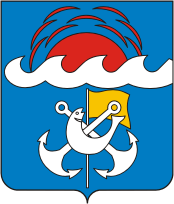 Okhotsk (Khabarovsk krai), coat of arms (1976)